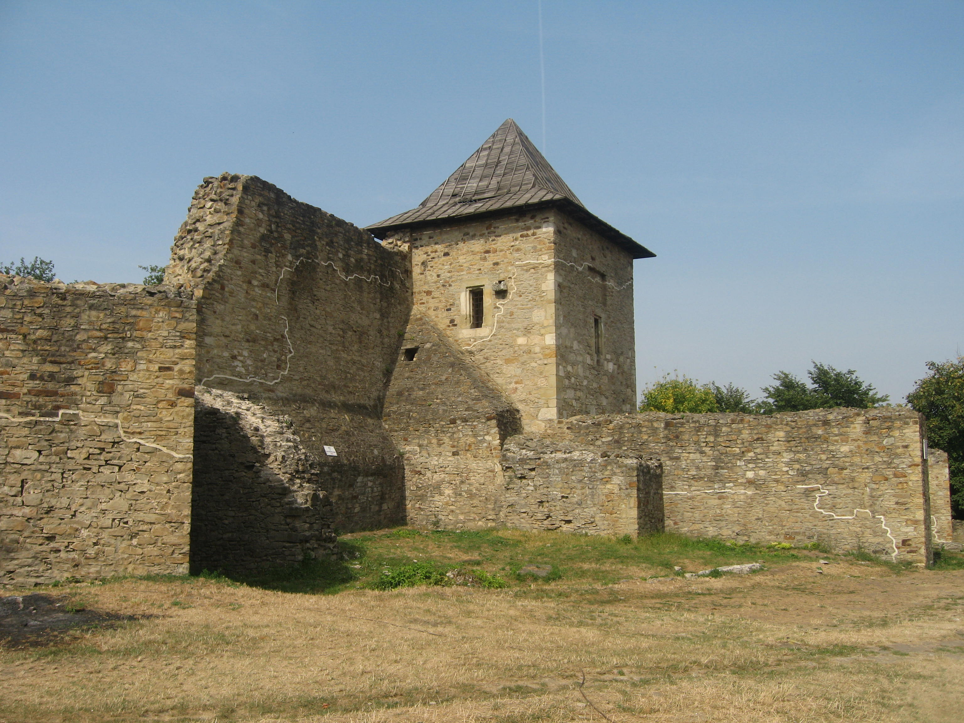 Seat Fortress of Suceava – place of the mint.